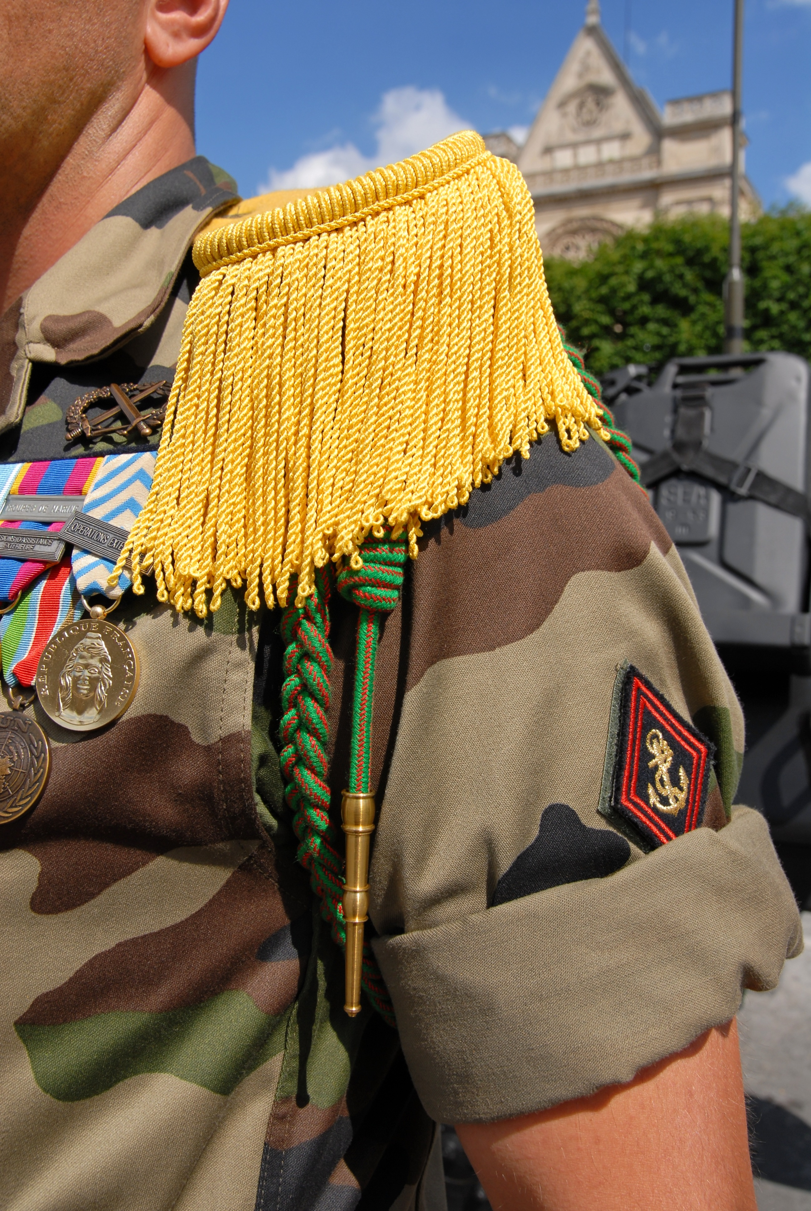 Green and red fourragère (Croix de guerre 1914-1918) worn by a soldier of the 1er RIMa (French marine troops).